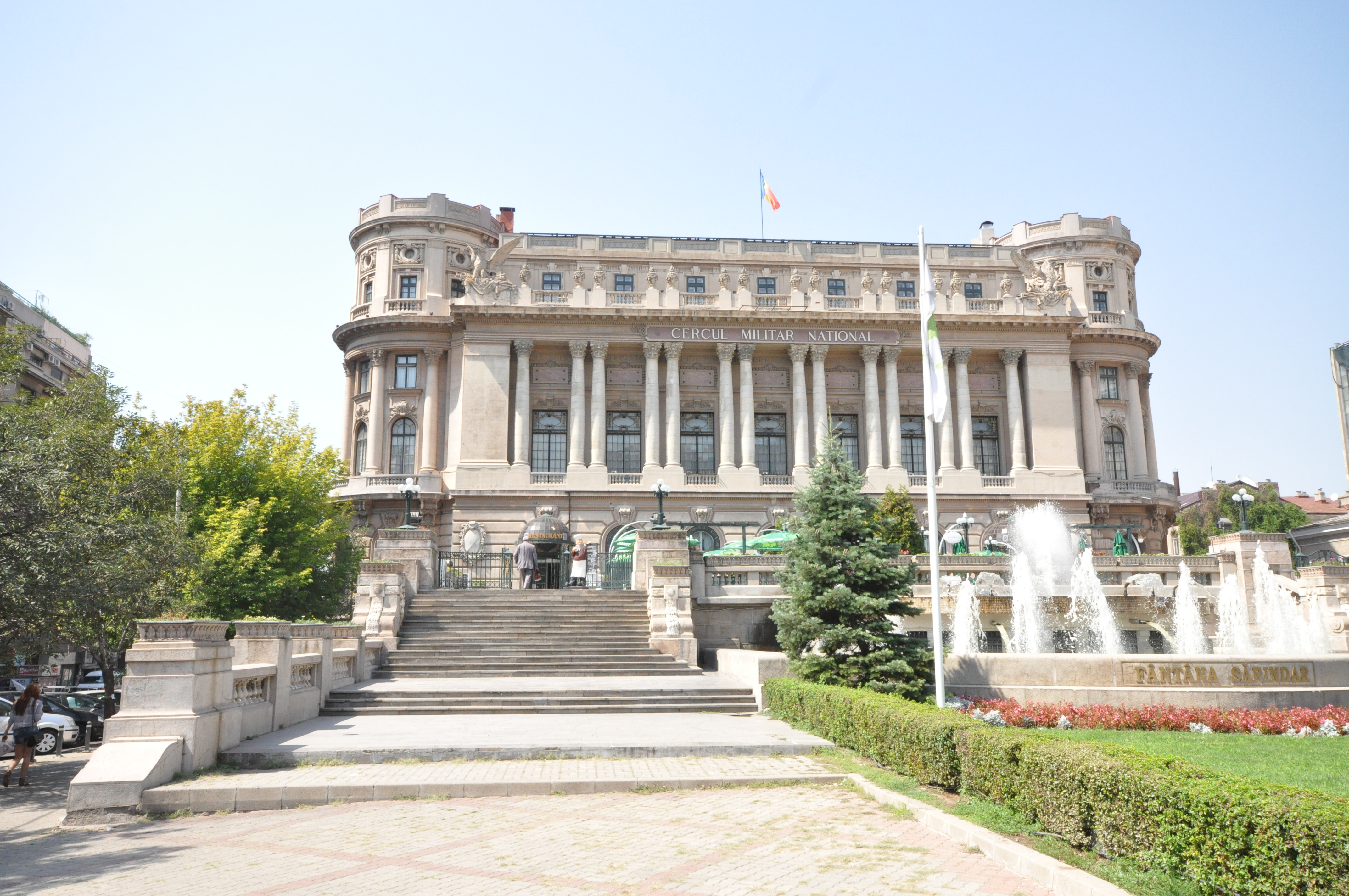 Palatul Cercului Militar National in Bucharest, or short Cercul Militar, was built in 1911 and is the cultural headquater of the Romanian Army. Cercul Militar is situated in the Center of Bucharest, in the university zone, on Calea Victoriei. Beside the Army administration, a lot of cultural events in Bucharest are held there